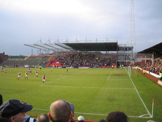 Stand under construction New stand under construction at Millmoor, home of Rotherham United Football Club.